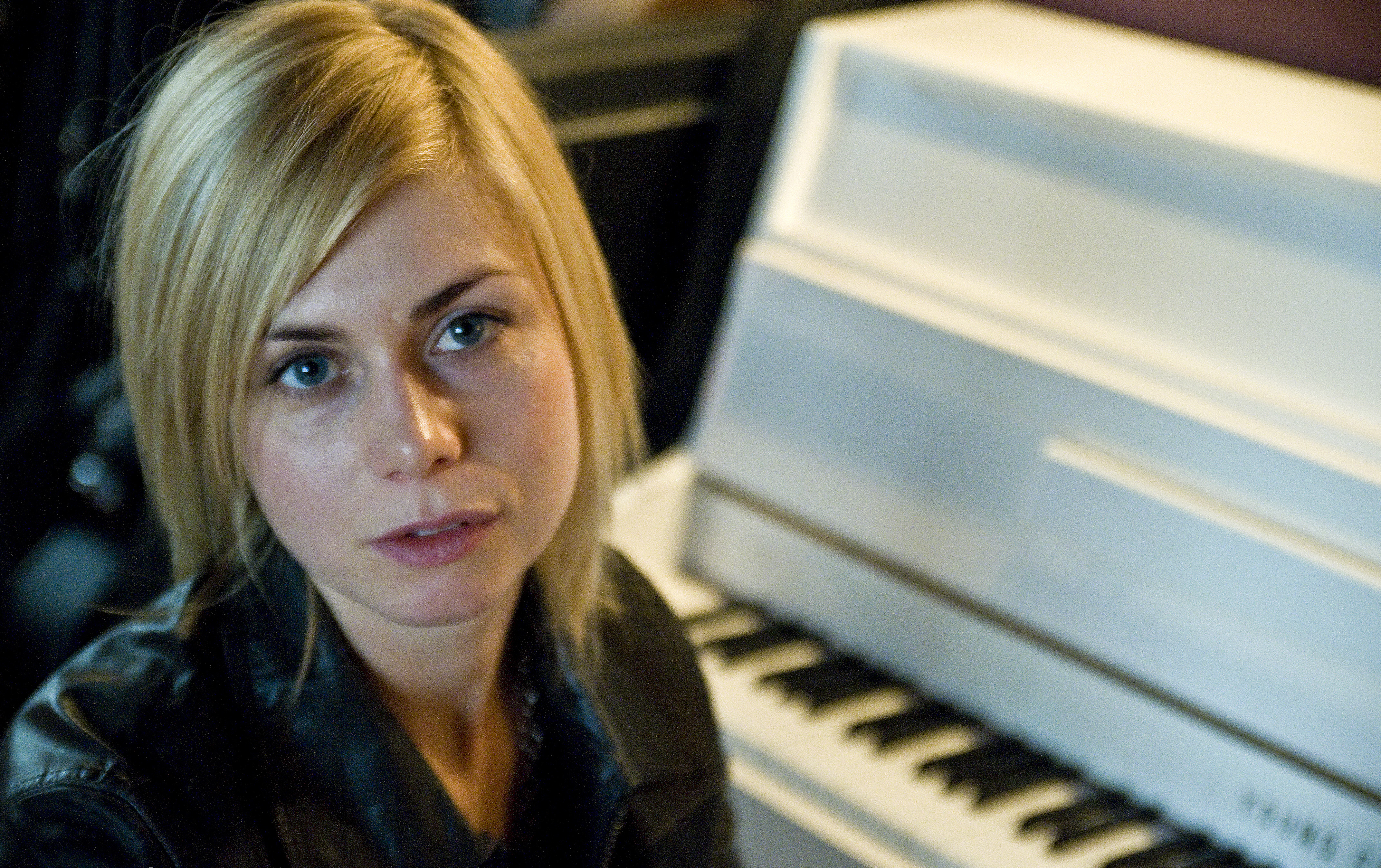 Swedish singer-songwriter Anna Ternheim performing a video session for french webzine Le Cargo